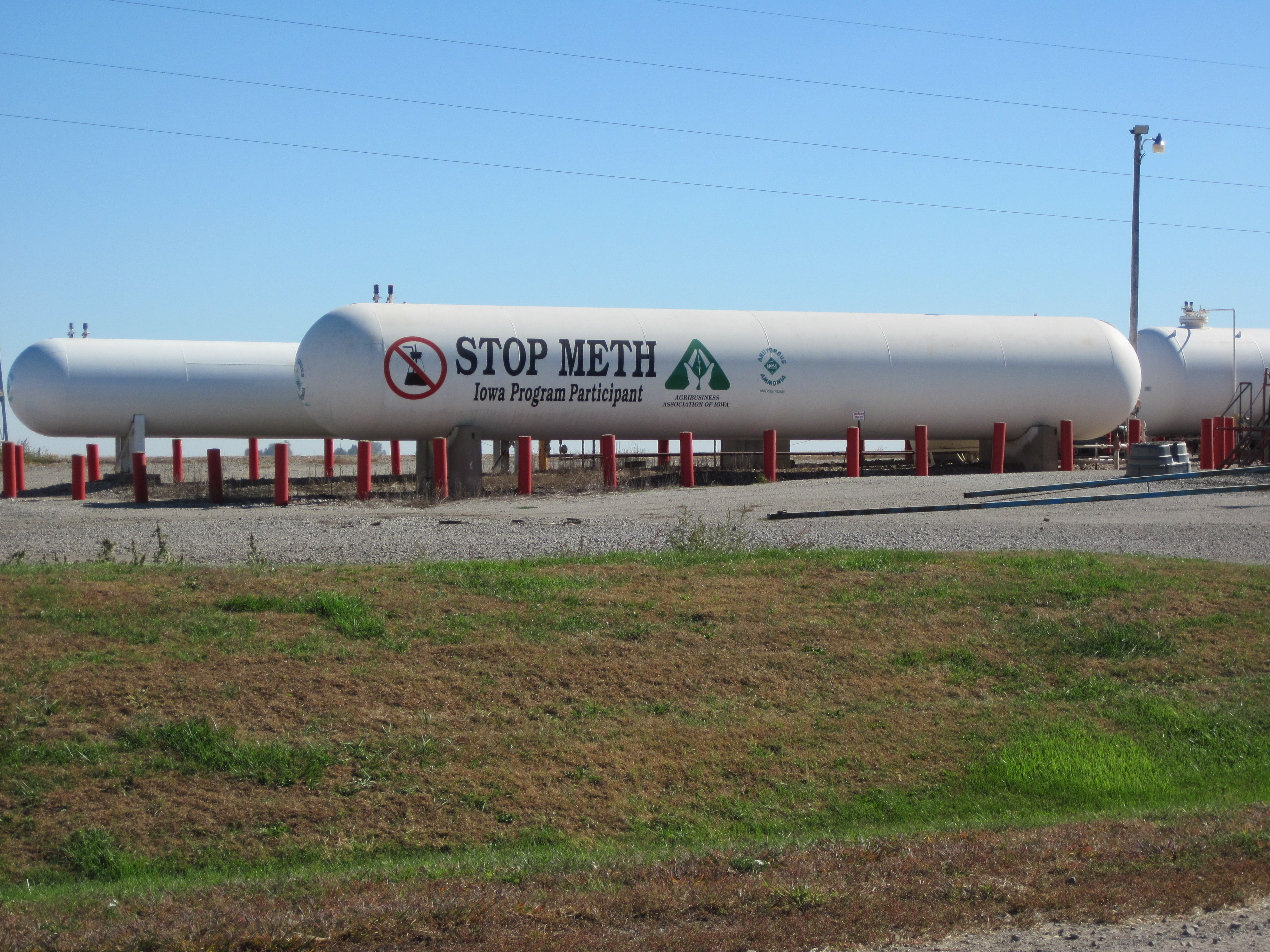 Anti-meth sign ("Stop Meth") on an anhydrous ammonia (NH₃) tank outside Otley, Marion County, Iowa, USA. – Anhydrous ammonia is a common farm fertilizer which is also a critical ingredient in making methamphetamine. In 2005, the state of Iowa gave out thousands of locks in order to prevent criminals from accessing the tanks. Those tanks are stored at co-ops, and on farm fields across the state, cf. [1].